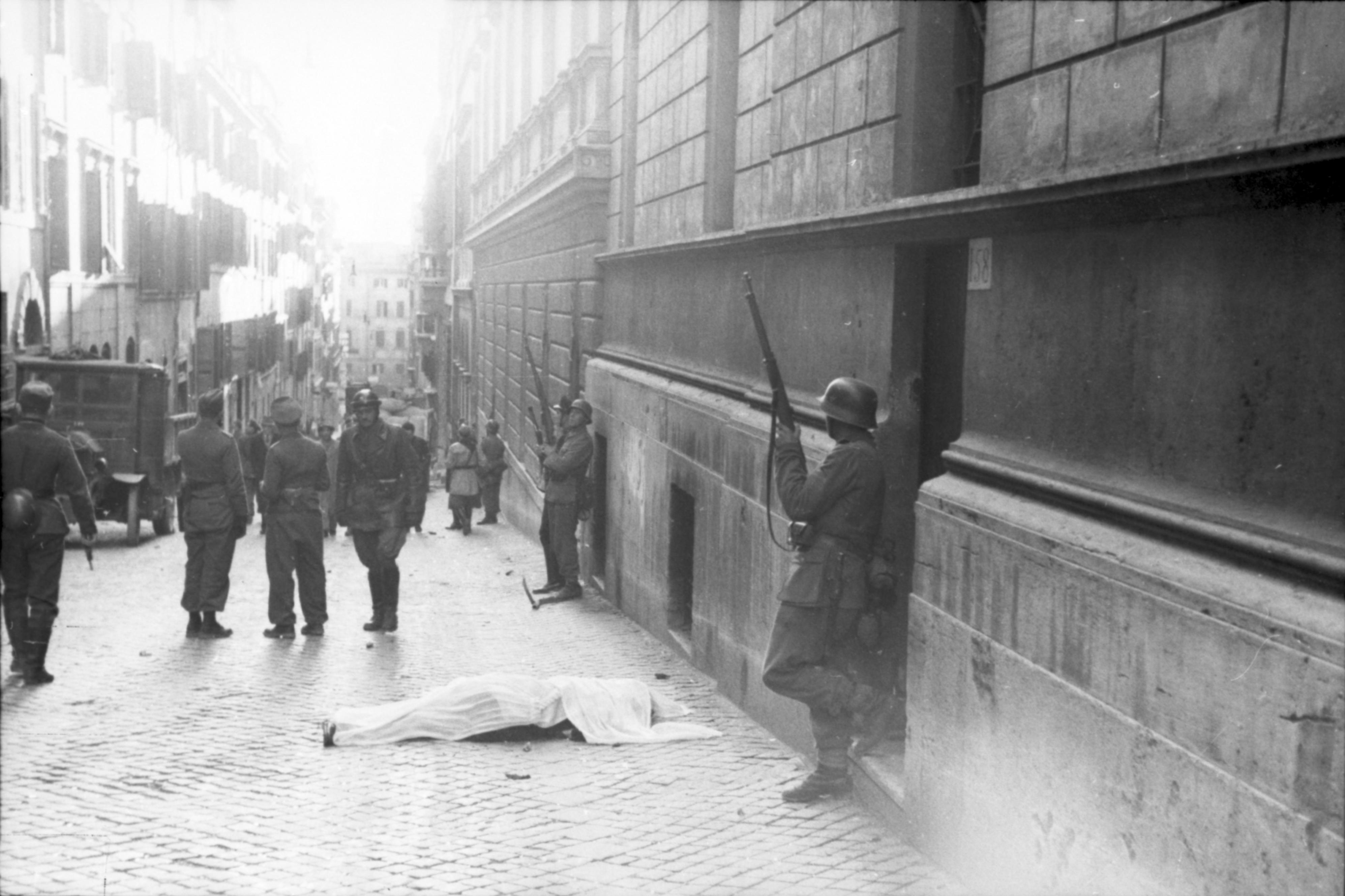 Rome, Italy, 23 March 1944. German and fascist republican soldiers in via Rasella after a deadly Partisan attack against the 11th Company, 3rd Battalion, German Police Battalion "Bozen", raised from ethnic Germans from the northern Italian province of South Tyrol, de facto annexed to the Third Reich since October 1943. All the Germans killed (33) and wounded (around 100) during the attack had been removed already from the scene at the time the picture was taken. The corpse under a blanket could be one of the civilians killed during the German reaction to the attack. All of the 12 attackers escaped capture unscathed. Information added by Wikimedia users.*